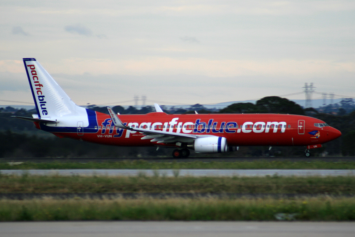 As of January 2008 this was the most recent Boeing 737 to enter service with Virgin Blue. Like many of Virgin Blue's aircraft it is painted to promote sister international airline Pacific Blue; the only difference is that Virgin Blue's aircraft are registered in Australia, while Pacific Blue's are registered in New Zealand. Digital photo of 737-800 VH-VUN taken at Melbourne Airport on 3 December 2007 by YSSYguy & uploaded for use in the Virgin Blue article